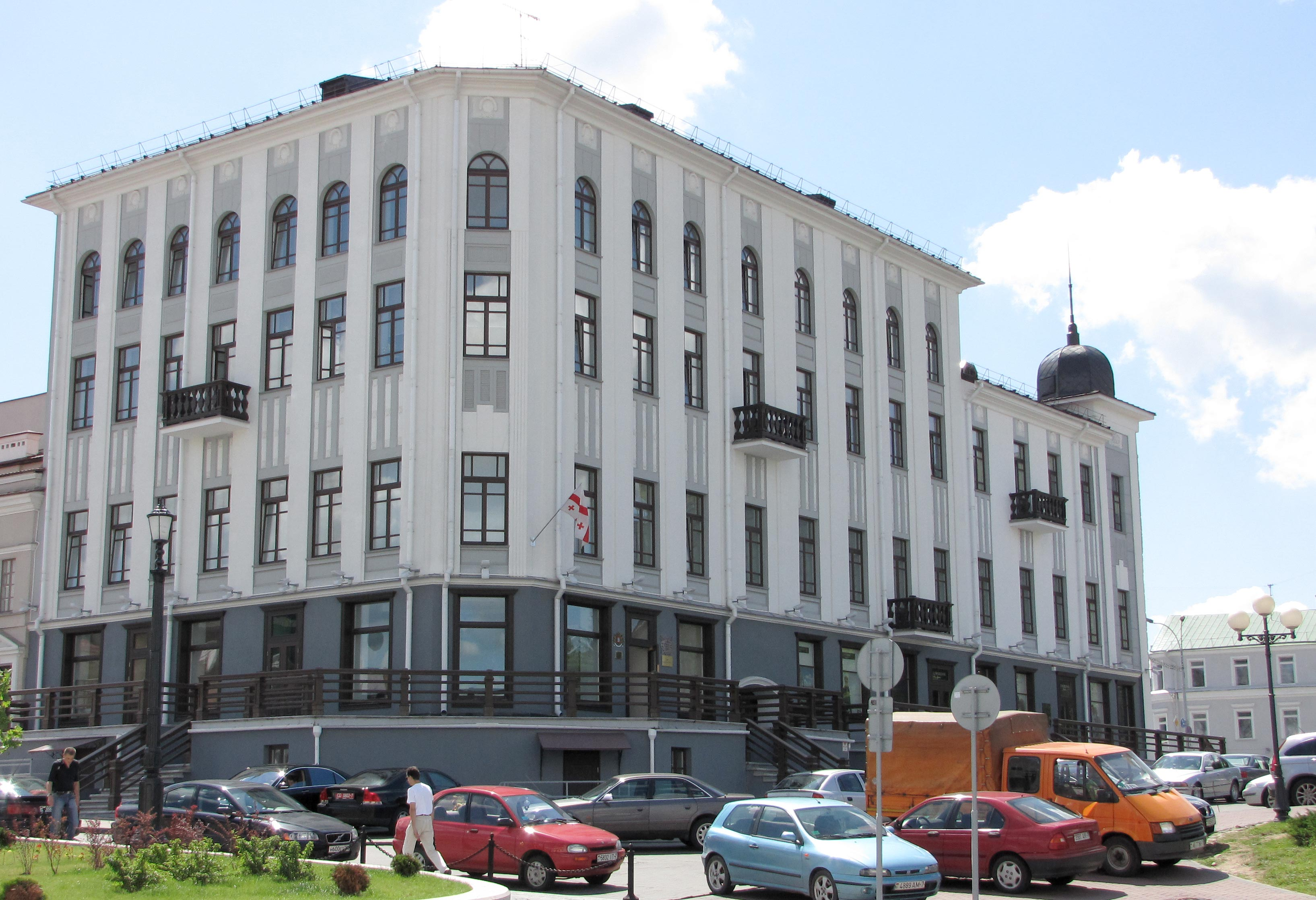 The Georgian embassy in Minsk, Belarus.